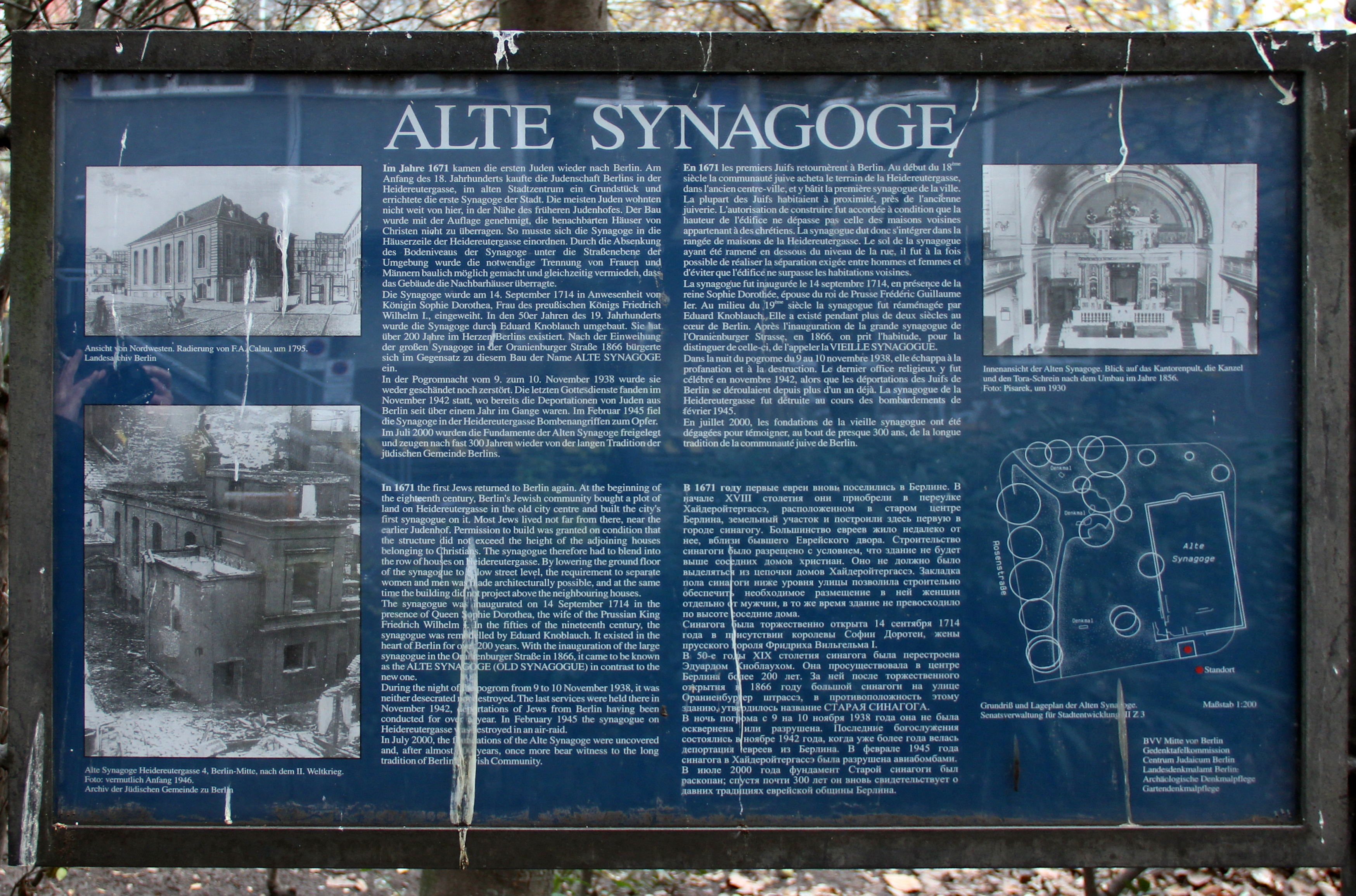 Memorial plaque, Alte Synagoge (Berlin), Heidereutergasse, Berlin-Mitte, Germany